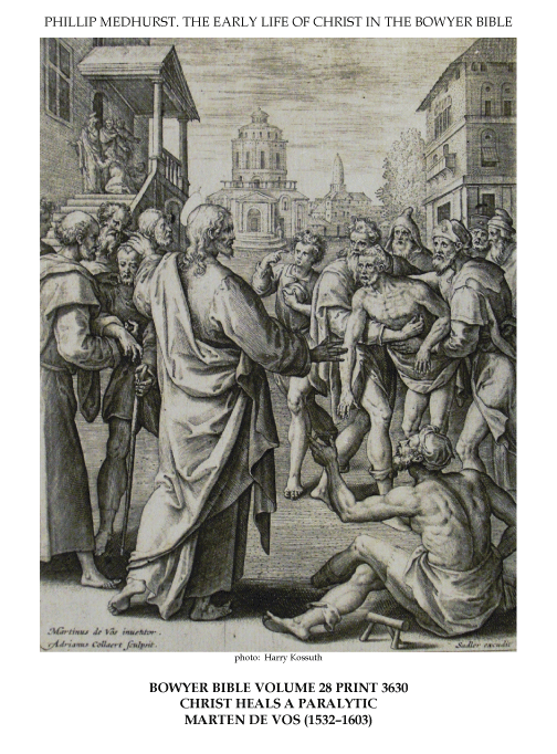 A semi-naked man held by two men is brought before Jesus; a crippled beggar missing a foot sits on the ground and implores Christ. This engraving made by Adriaen Collaert after Marten de Vos (see above) and published by Raphael Sadeler in c. 1585-1586. School: Flemish. This is Plate 7 From a series of twelve plates – “Vita Christi” – engraved by Collaert and published by Sadeler. The print is lettered below left: "Martinus de Vos inventor/Adrianus Collaert sculpsit" and at right "Sadler excudit". Dimensions: height: 195 millimetres; width: 142 millimetres. A related drawing is in the Ēcole des Beaux Arts, Paris.